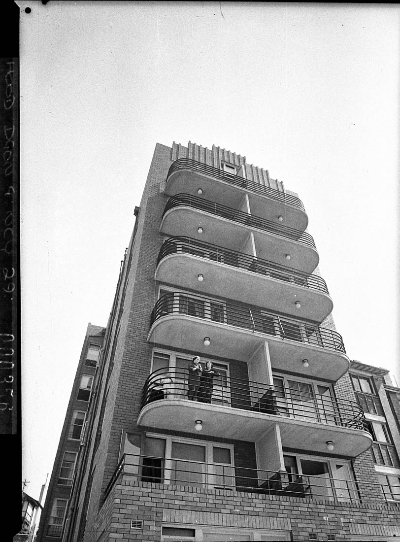 The art deco Edgewater flats, located at Elizabeth Bay, New South Wales, pictured in 1937.